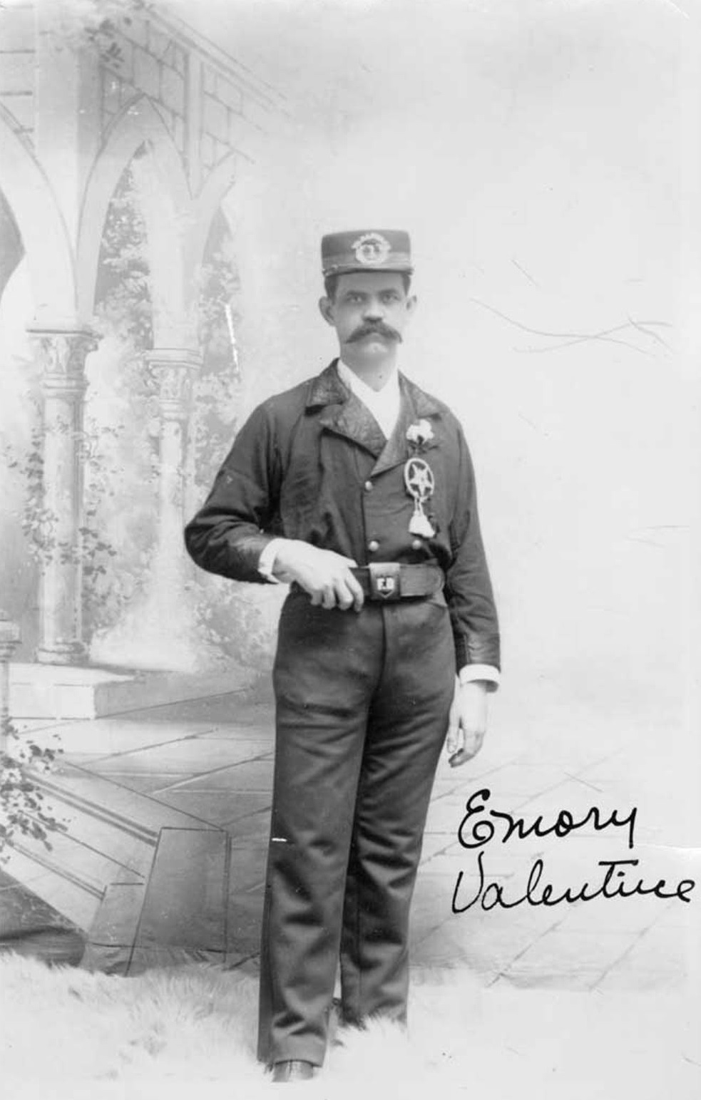 Emory Valentine in fire fighter's uniform, ca. 1890.